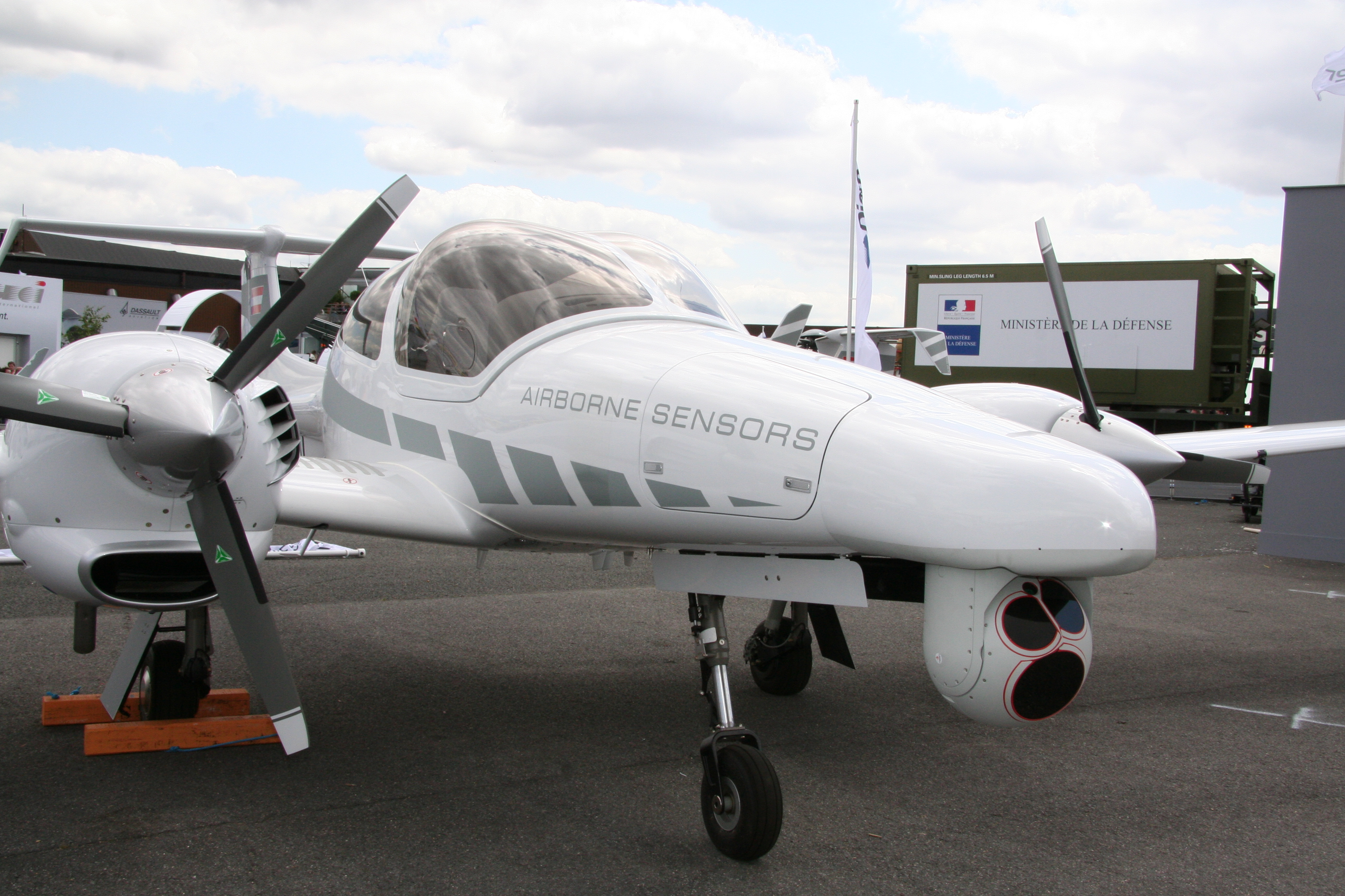 Diamond DA42 MPP - Paris Air Show 2009